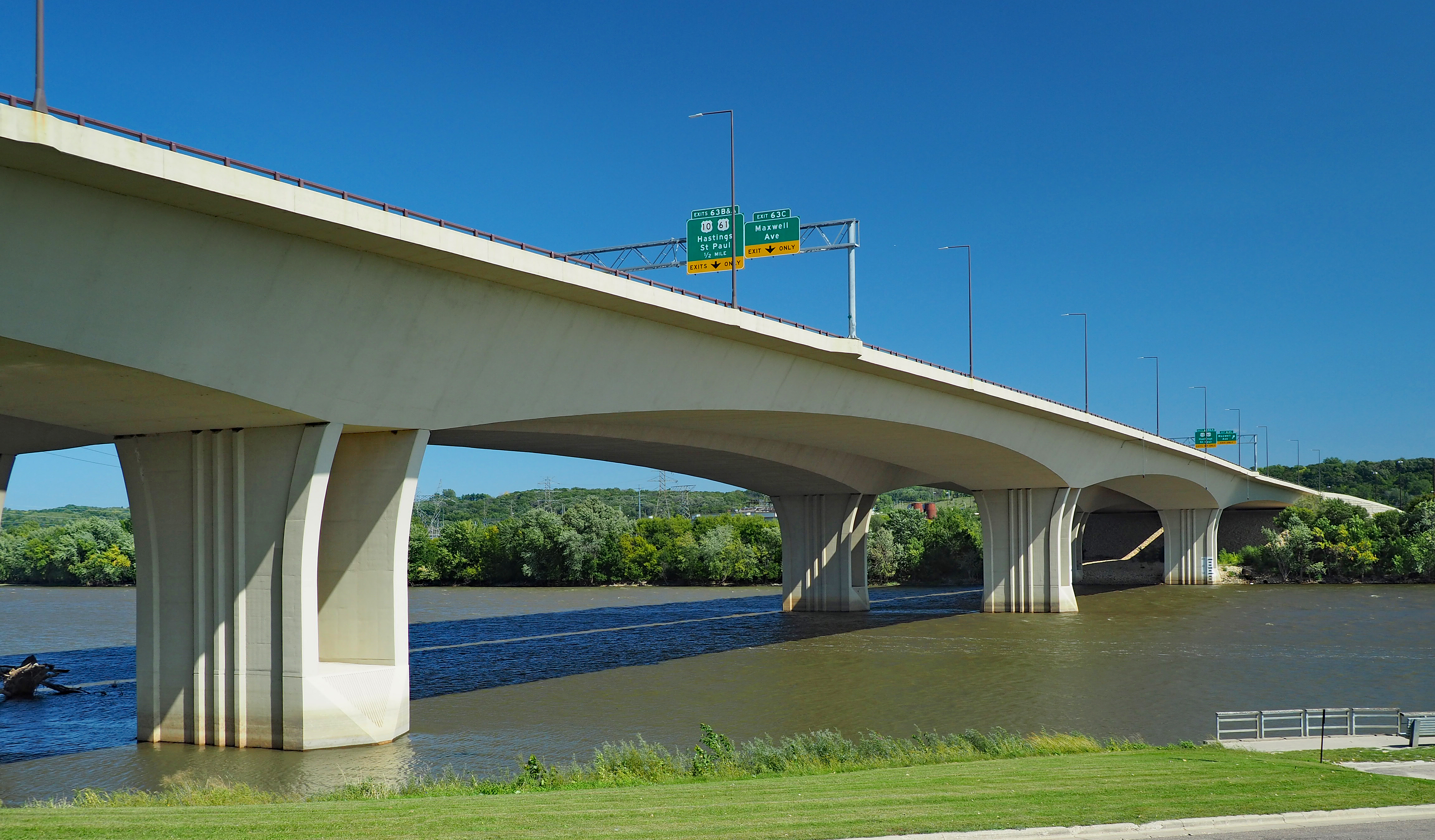 Wakota Bridge from the Mississippi River Regional Trail, South St Paul, Minnesota, USA. View looking east-northeast.